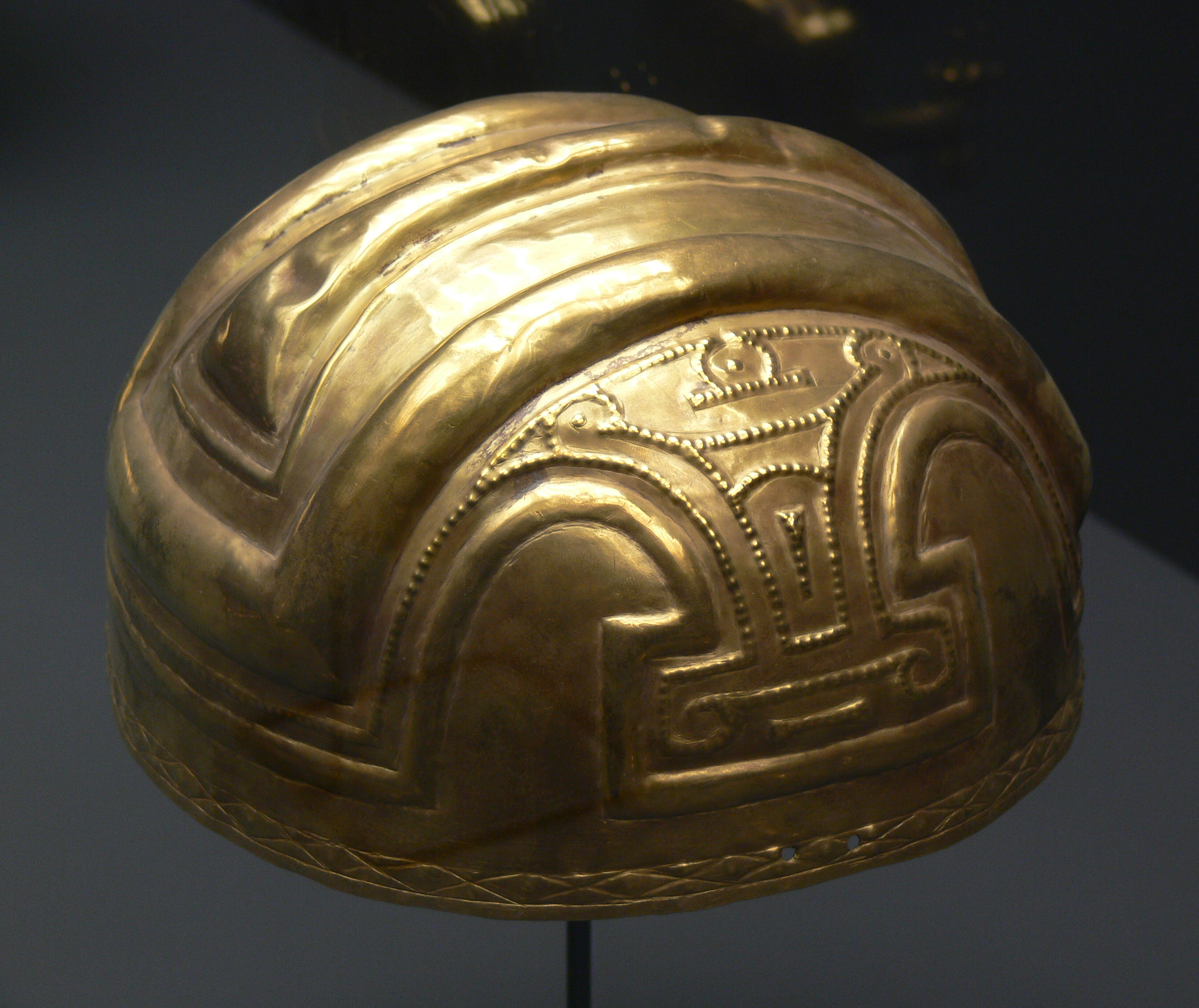 Golden helmet (burial object); Quimbaya culture, Colombia; Ethnological Museum, Berlin, Germany